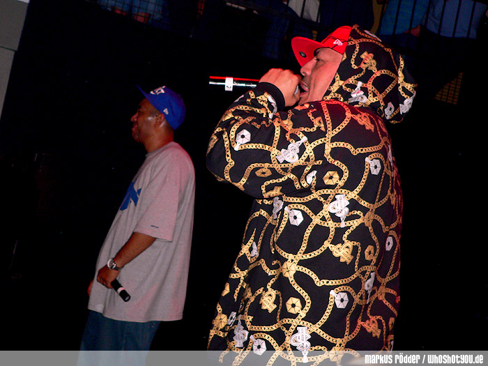 Beatnuts performing live at Skaters Palace Café (Münster) in Germany.